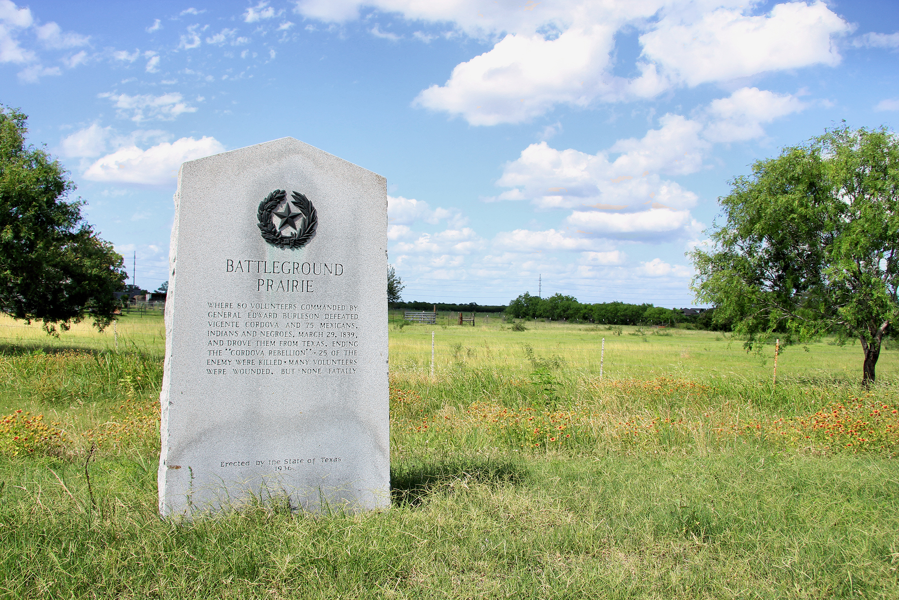 1936 Texas Centennial marker for the Battleground Prairie near Seguin, Texas, United States. The battle fought here ended the Cordova Rebellion.